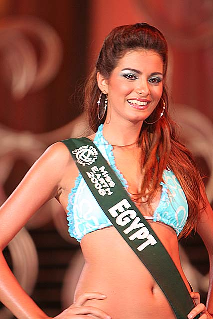 Meriam George, Miss Egypt, at Miss Earth 2006.